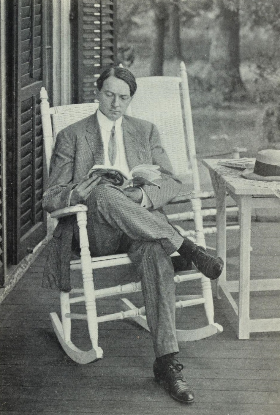 Portrait of Andress Small Floyd